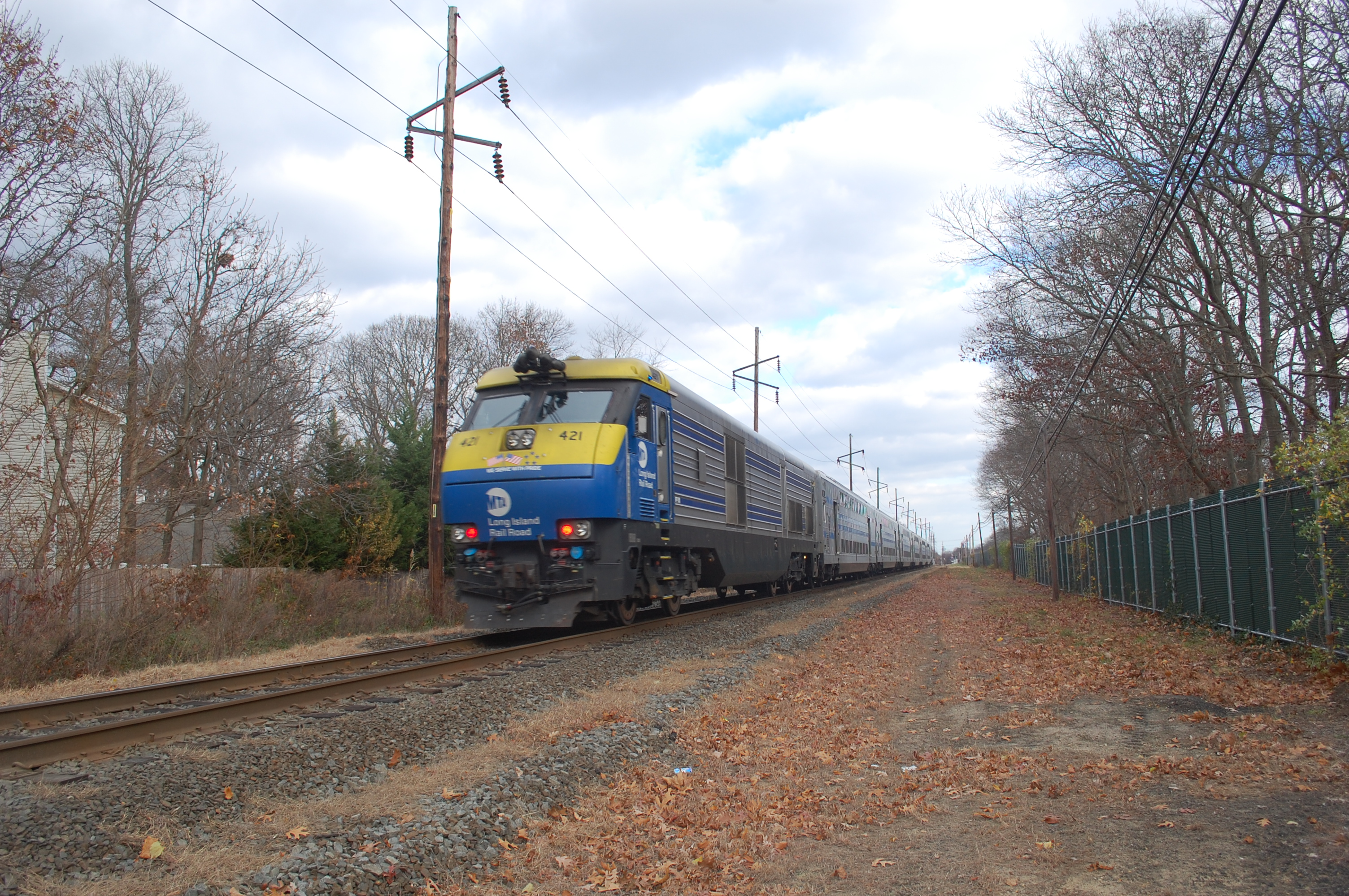 LIRR's diesel electric #421 passing the site of the former Bayport Station on the Montauk Line.